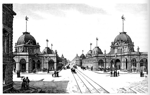 A visualization of Rmil Blichfeldt's unrealized proposal for a bridge at the Dronning Louises Bro site in Copenhagen, Denmark